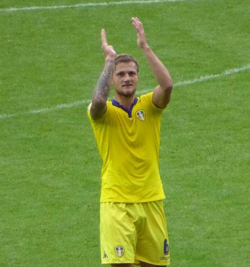 Leeds United footballer Liam Cooper.